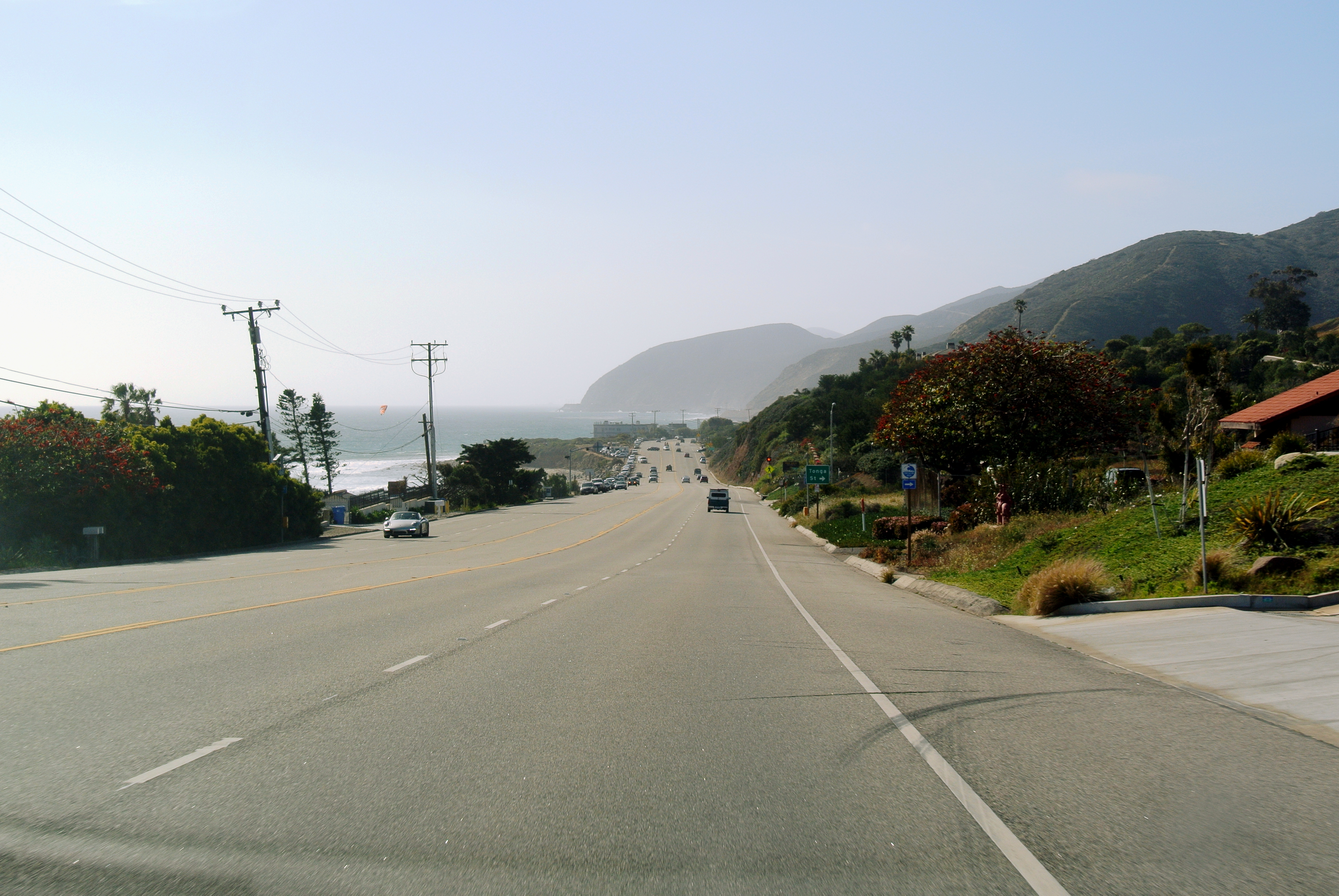 Pacific Coast Highway (CA 1) in Solromar (Ventura County), seen towards north.